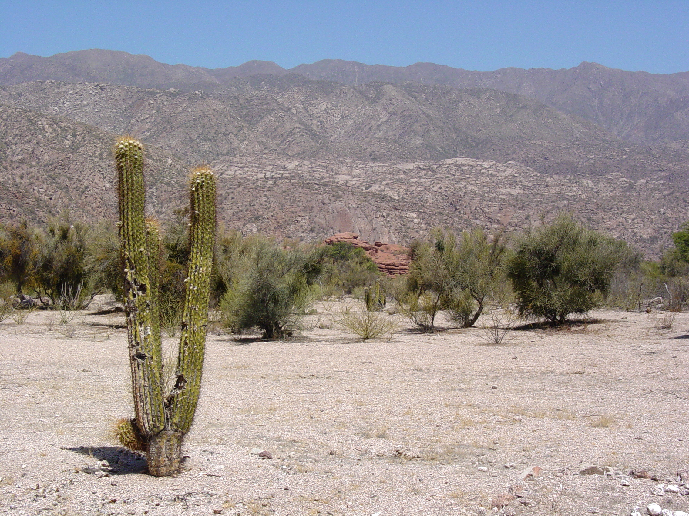 Desert scenery near La Rioja, Argentina. December 2003.